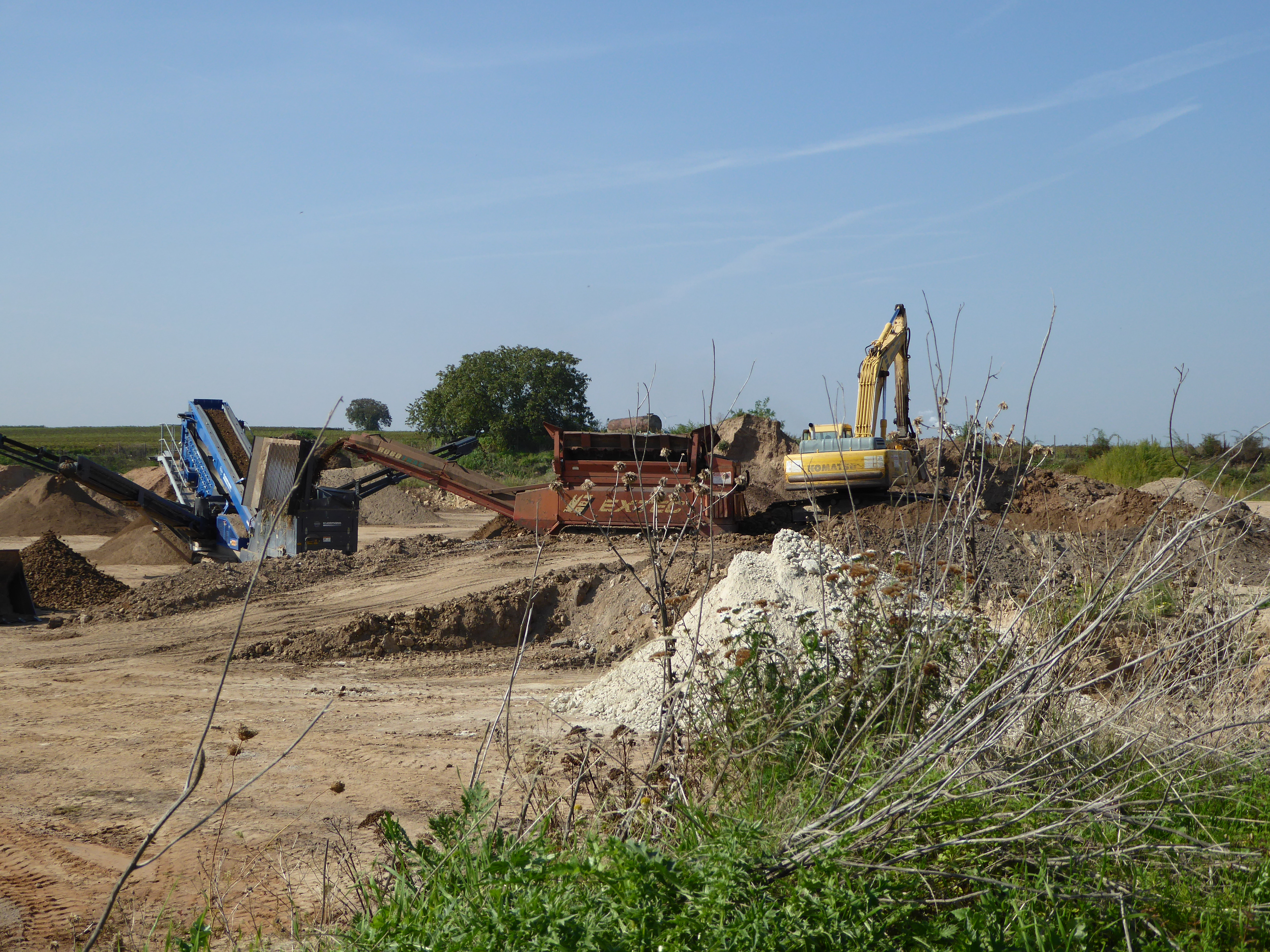 Alte Sandkaut near Dirmstein